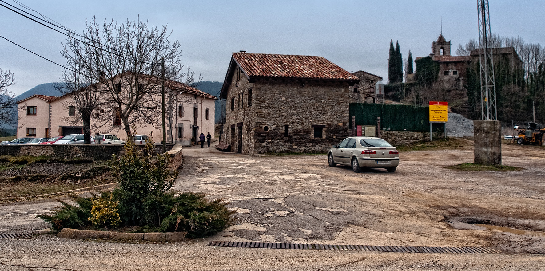 Matamala Church (Catalonia, Spain)